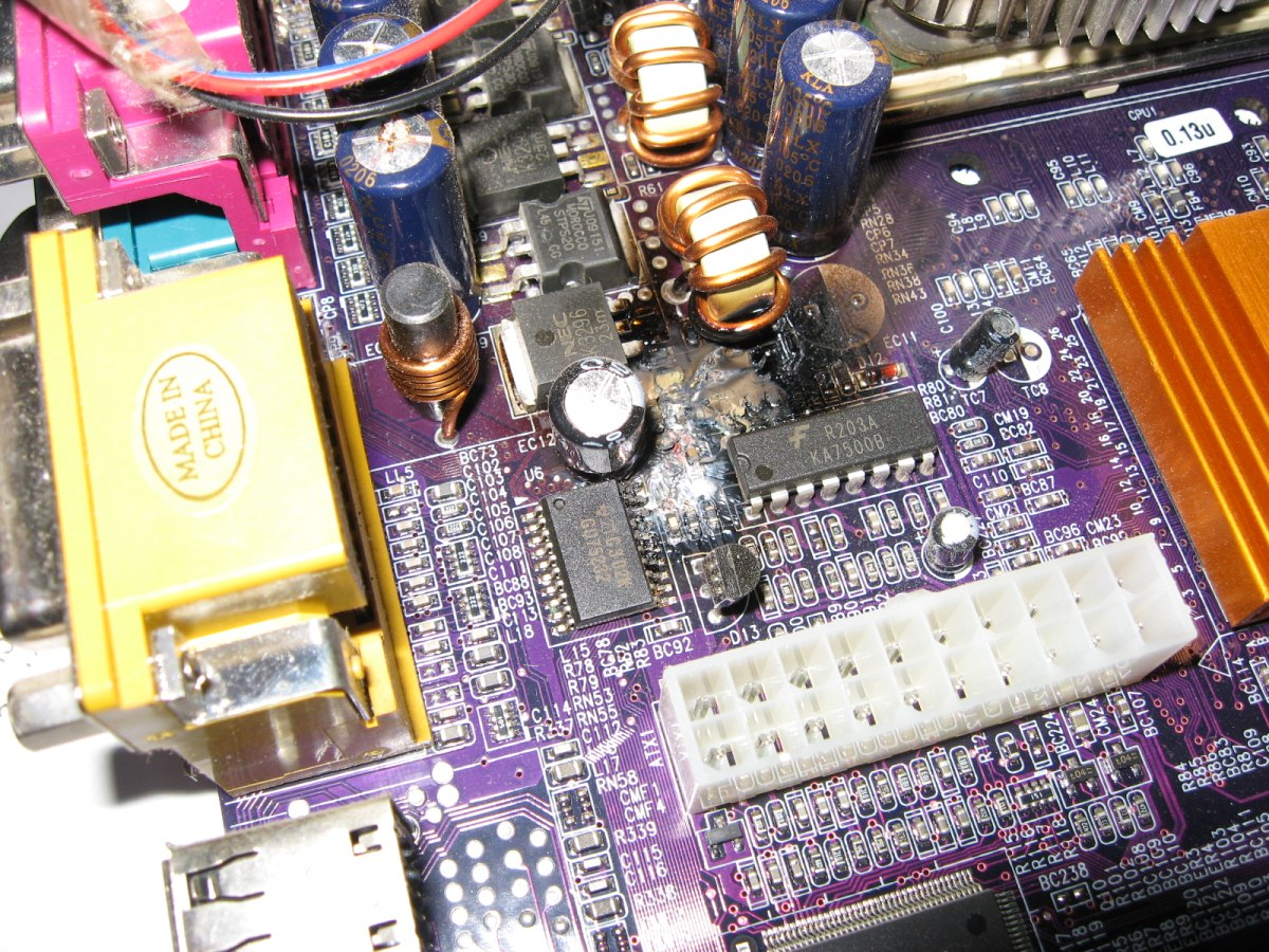 Burned PC motherboard